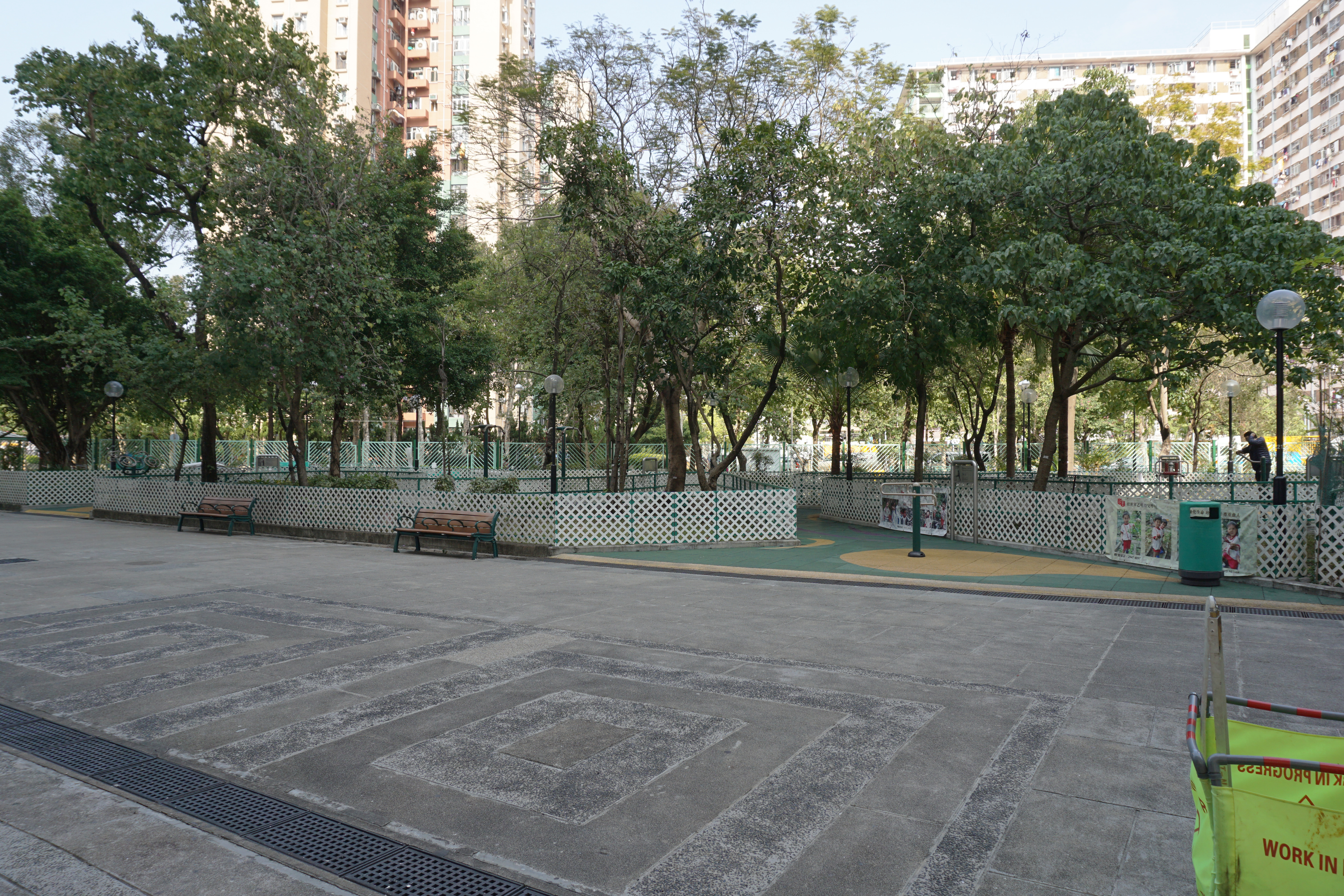 Jat Min Chuen in Sha Tin Wai, Hong Kong.